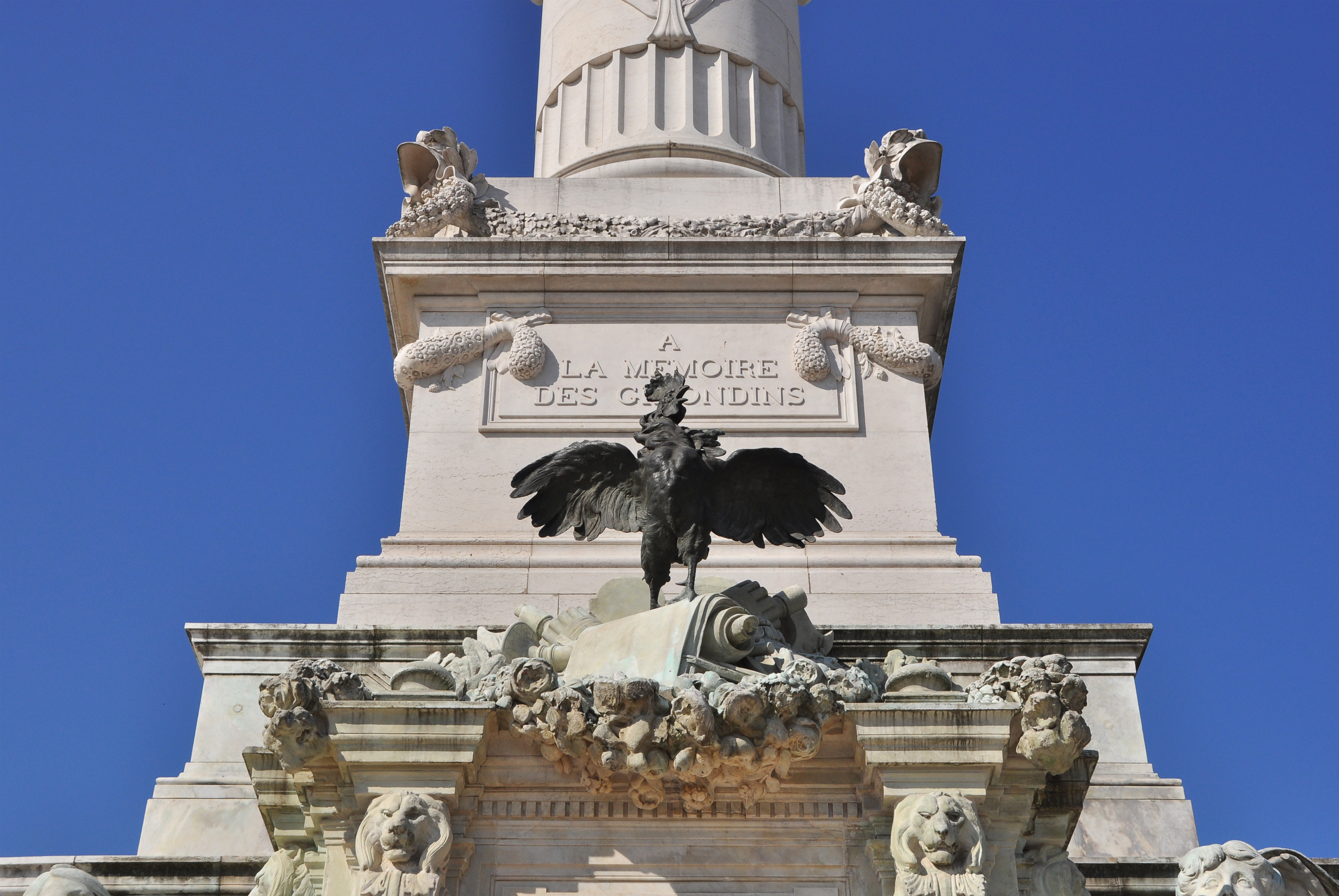 Bordeaux (France): the Monument aux Girondins, detail